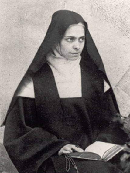 Portrait of Elisabeth of the Trinity wearing religious veil